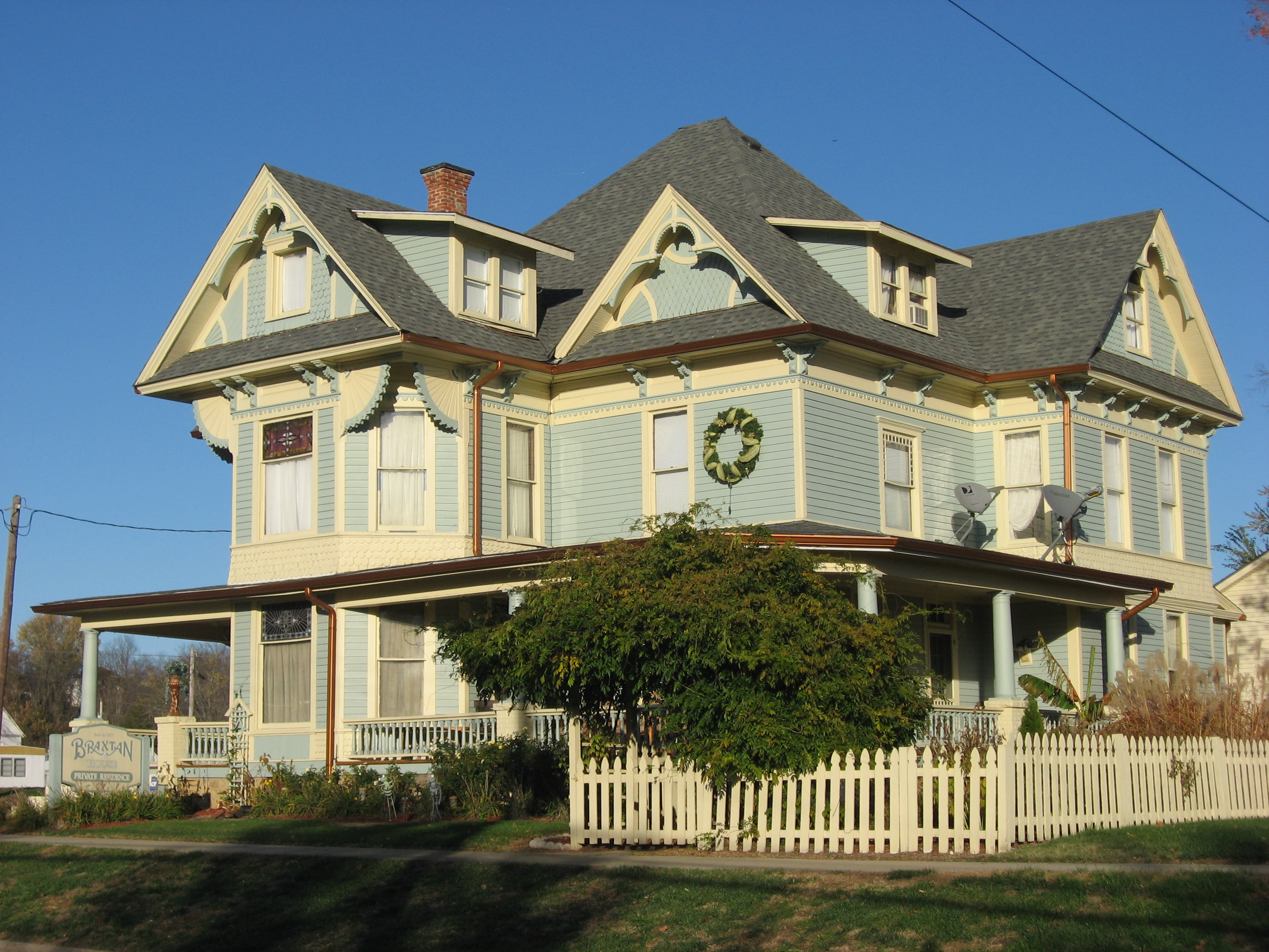 Front and southern side of the Thomas Newby Braxtan House, located at 210 N. Gospel Street (State Road 37) in Paoli, Indiana, United States. Built in 1893, it is listed on the National Register of Historic Places.